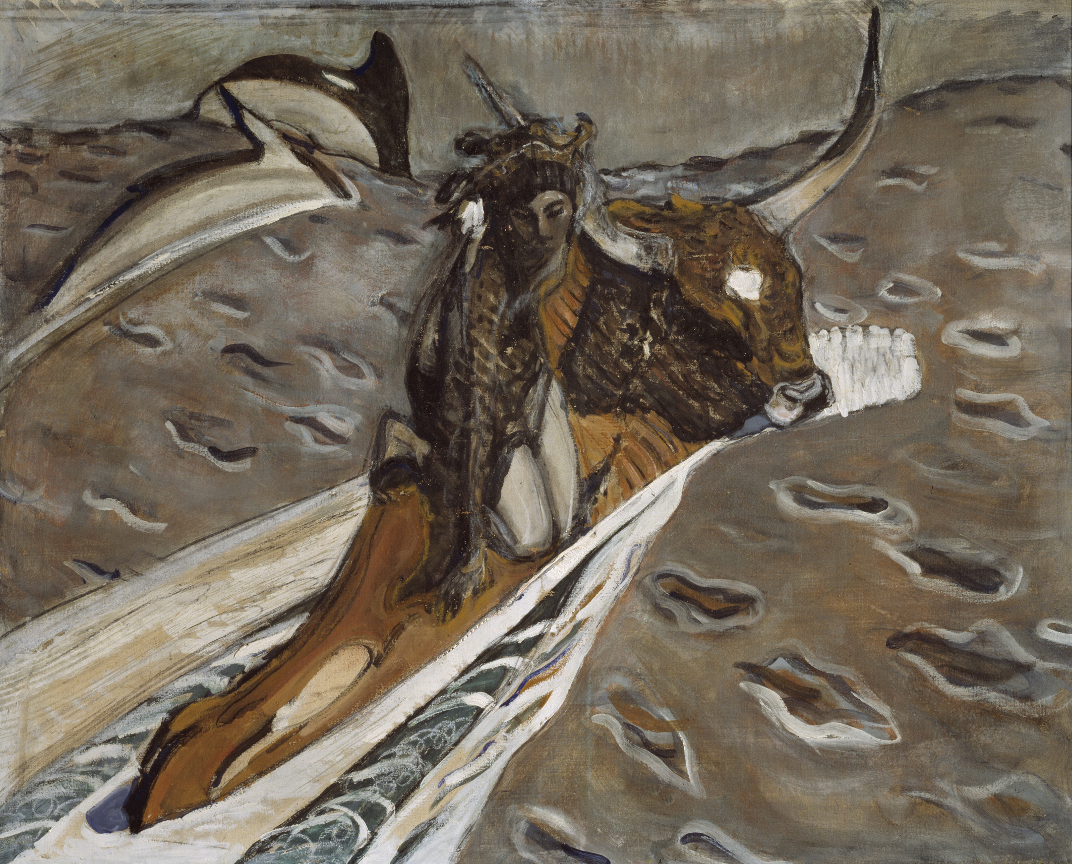 The Rape of Europe, sketch. 1910. The Tretyakov Gallery, Moscow, Russia.